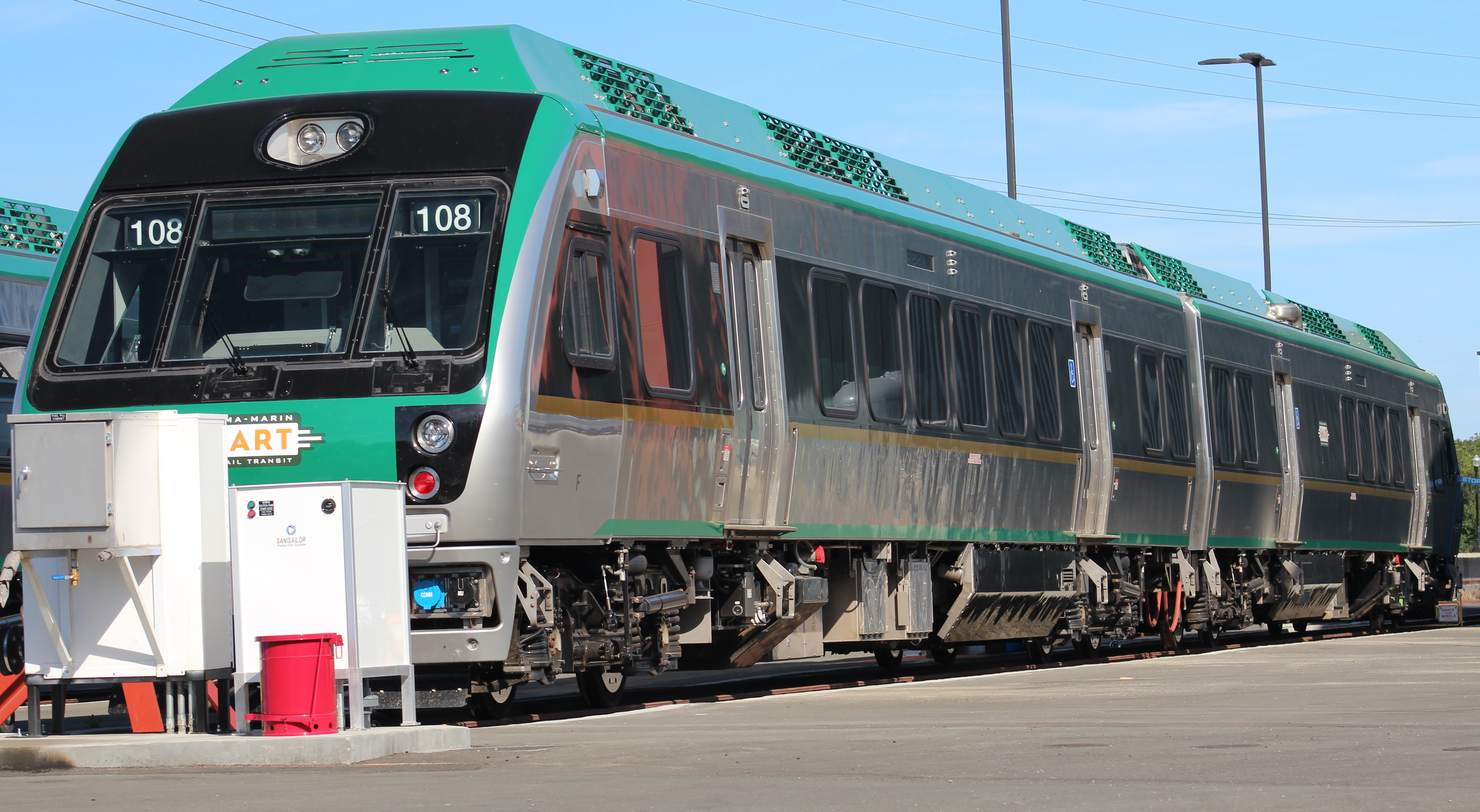 Photo of SMART train 108, a Nippon Sharyo DMU, at the SMART rail yard in Santa Rosa